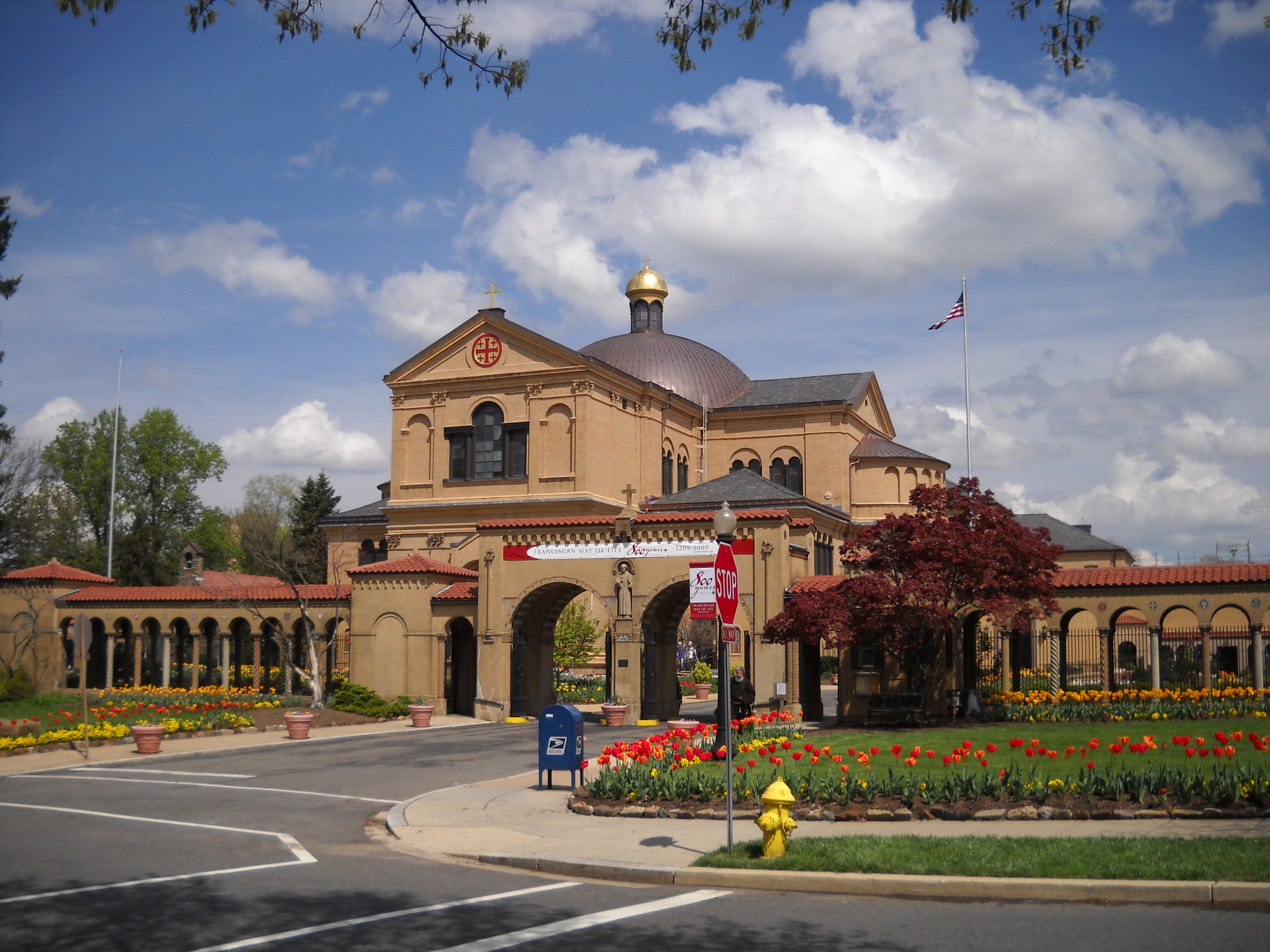 Mount St. Sepulchre Franciscan Monastery, Brookland